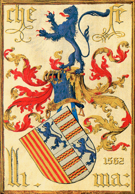 Coat of arms of the family Lima.